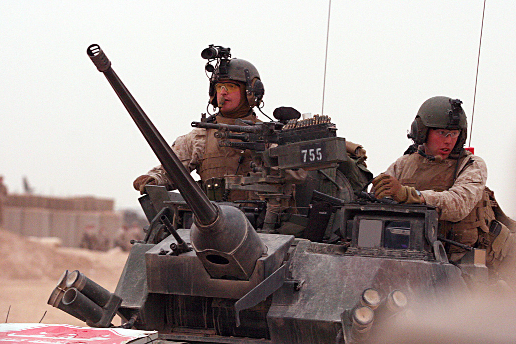 COMBAT OUTPOST RAWAH, IRAQ, (MARCH 25, 2007) – Lance Cpl. Garrick S. Palmarchuck, a gunner with Company C, 1st Light Armored Reconnaissance Battalion, looks around his Light Armored Vehicle while conducting a night raid. Awareness before during a mission is essential to success and can be the difference between coming back victorious and coming back empty-handed. Official Marine Corps Photo By Lance Cpl. Ryan C. Heiser.